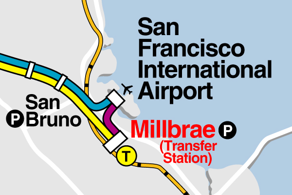 Detail from the BART system map effective June 22, 2003 - the first map with the SFO extension open - showing the short-lived Millbrae-SFO shuttle in purple.